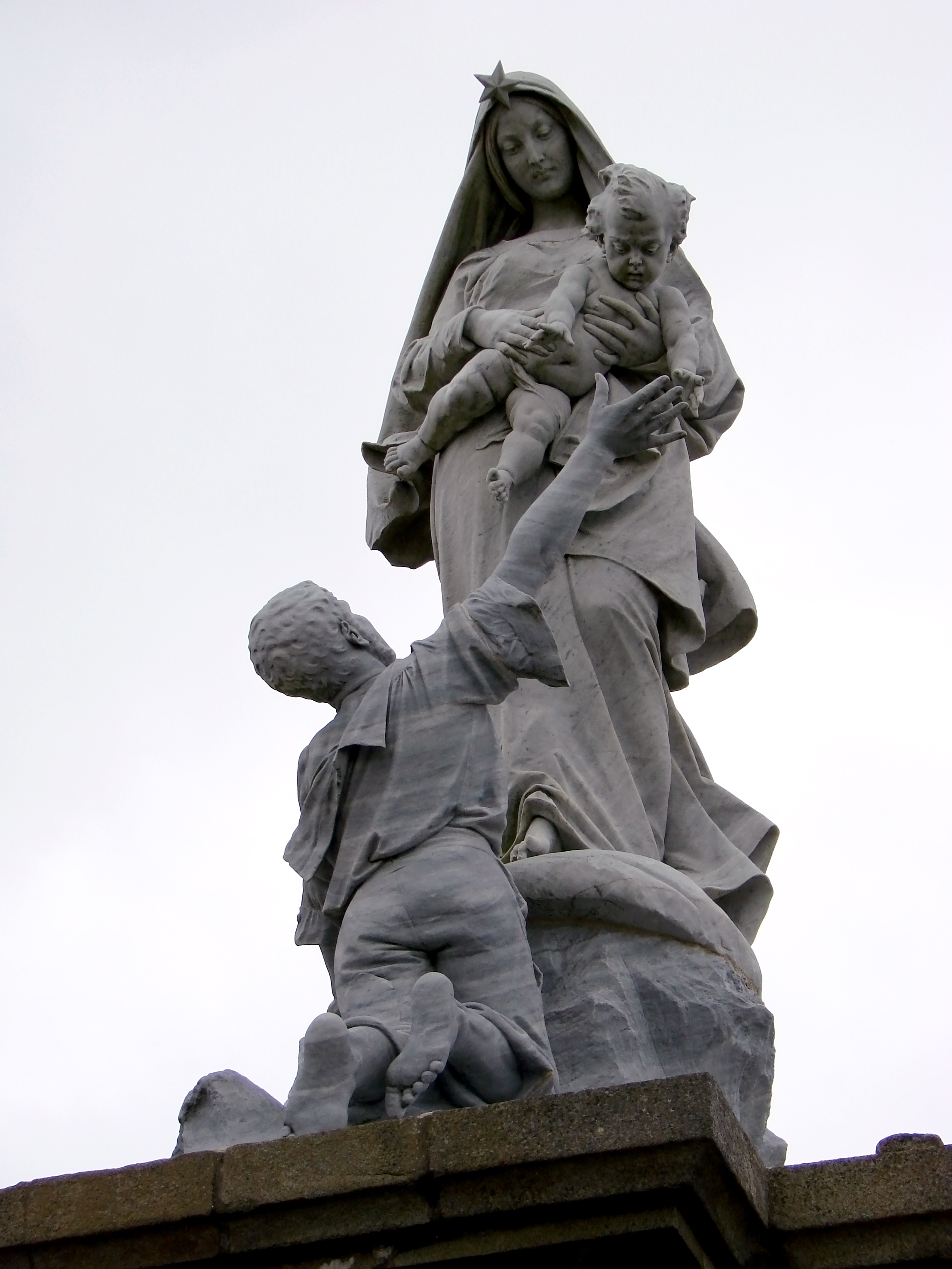 Our Lady of the shipwrecked men, by Cyprien (Cyprian) Godebski (1835-1909). Pointe du Raz, Finistère, Brittany, France.